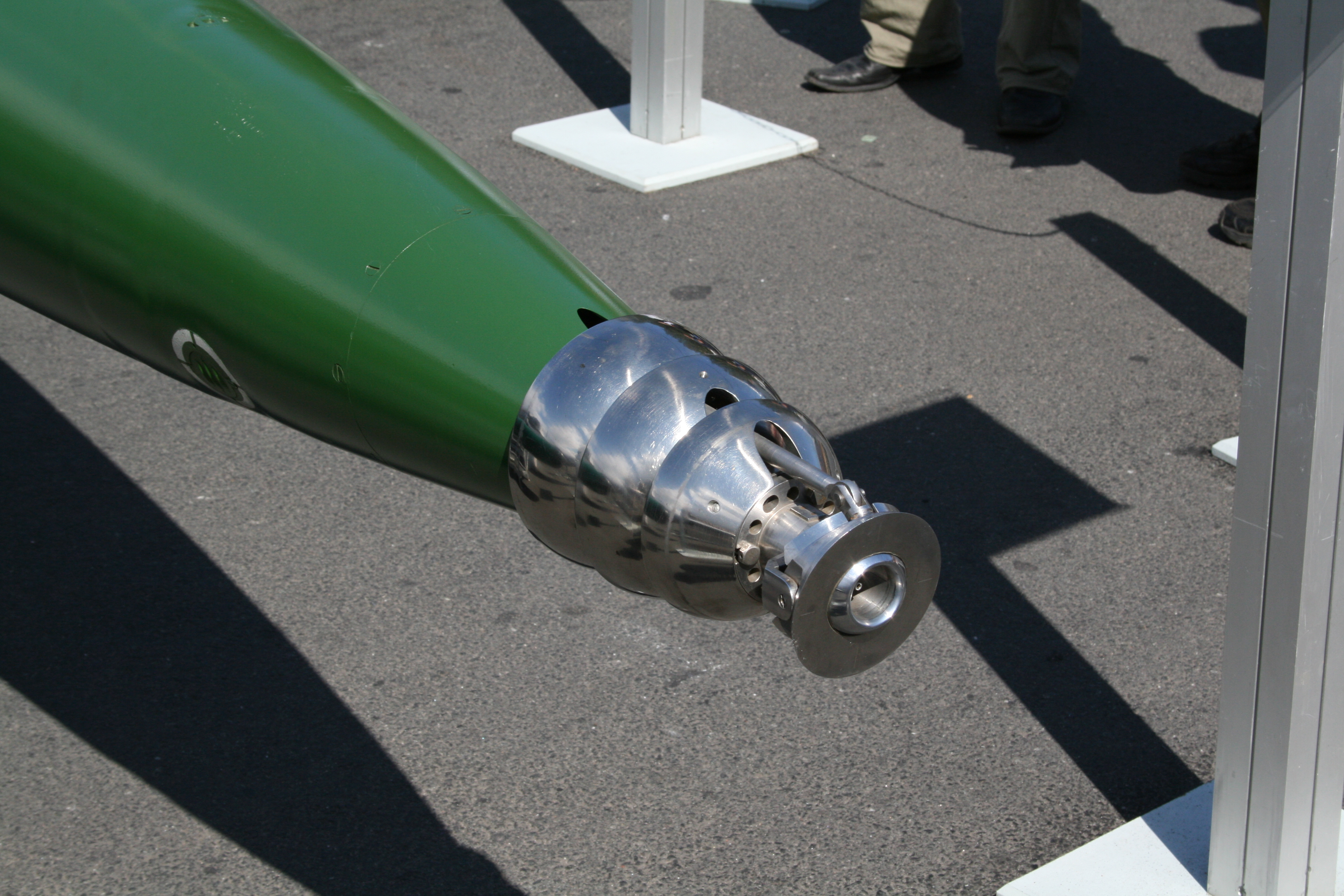 Underwater missile «Shkval» (export variant, front view). Note the steerable head. Displayed on IMDS-2007.